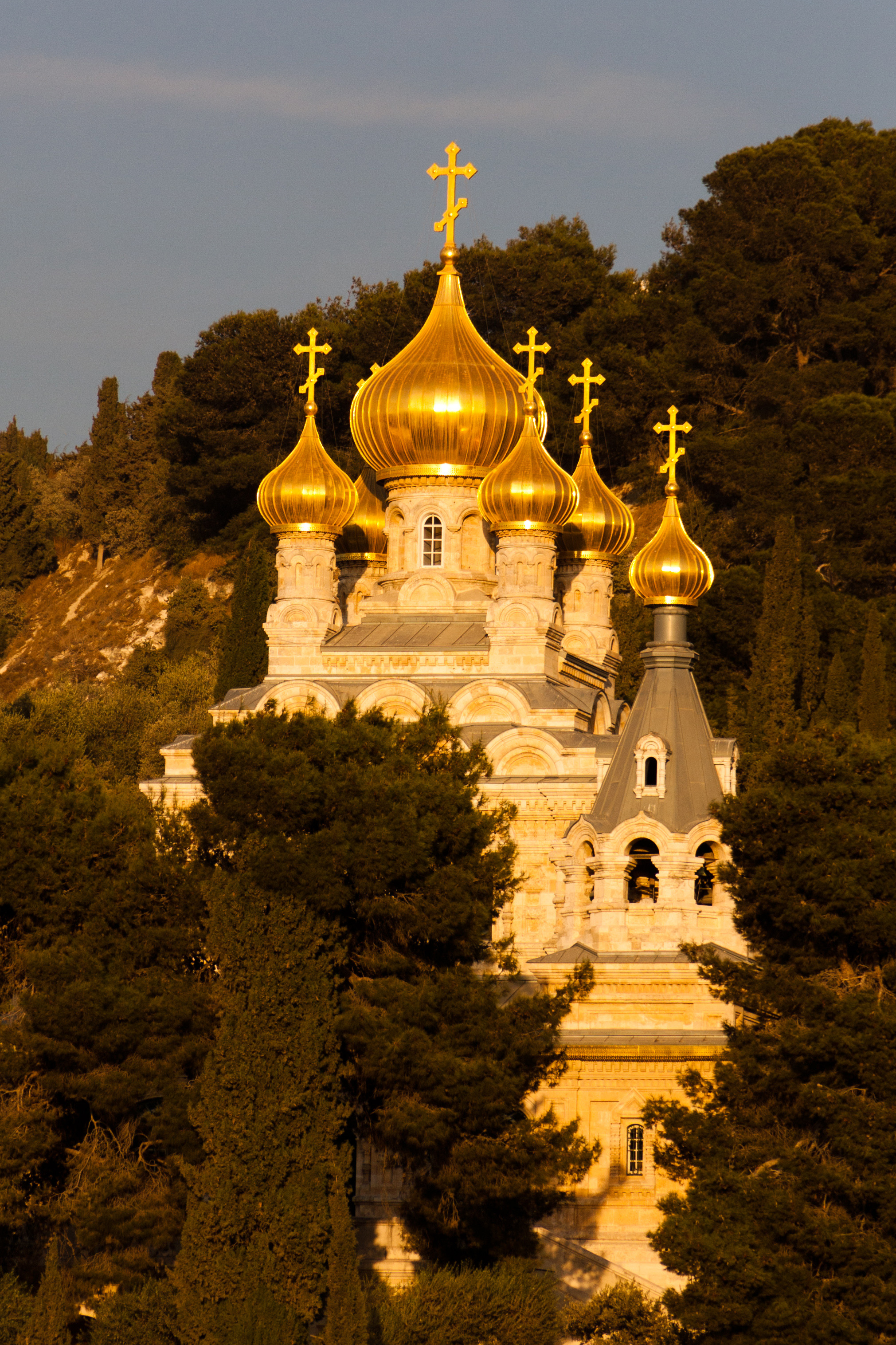 Mary Magdalene Church, Jerusalem